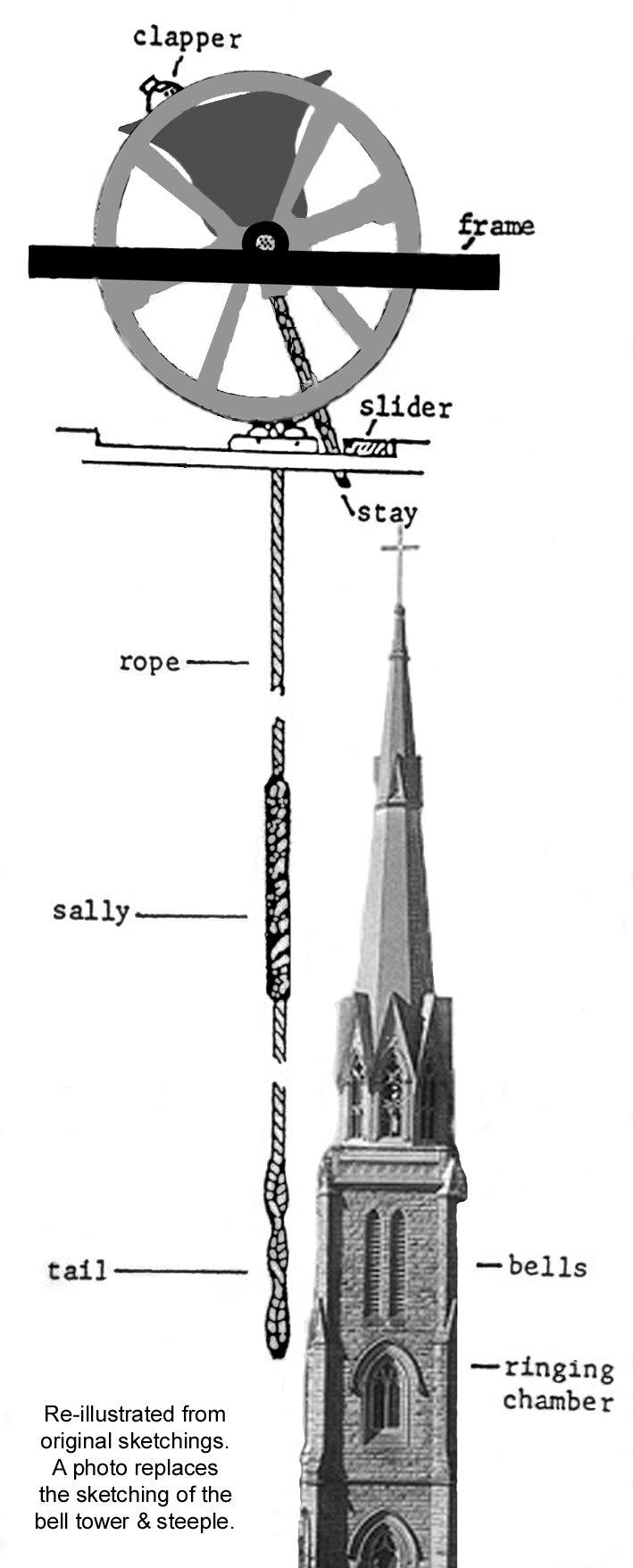 Diagram of how the bell is step up in the tower